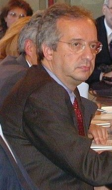 Walter Veltroni, Italian politician.